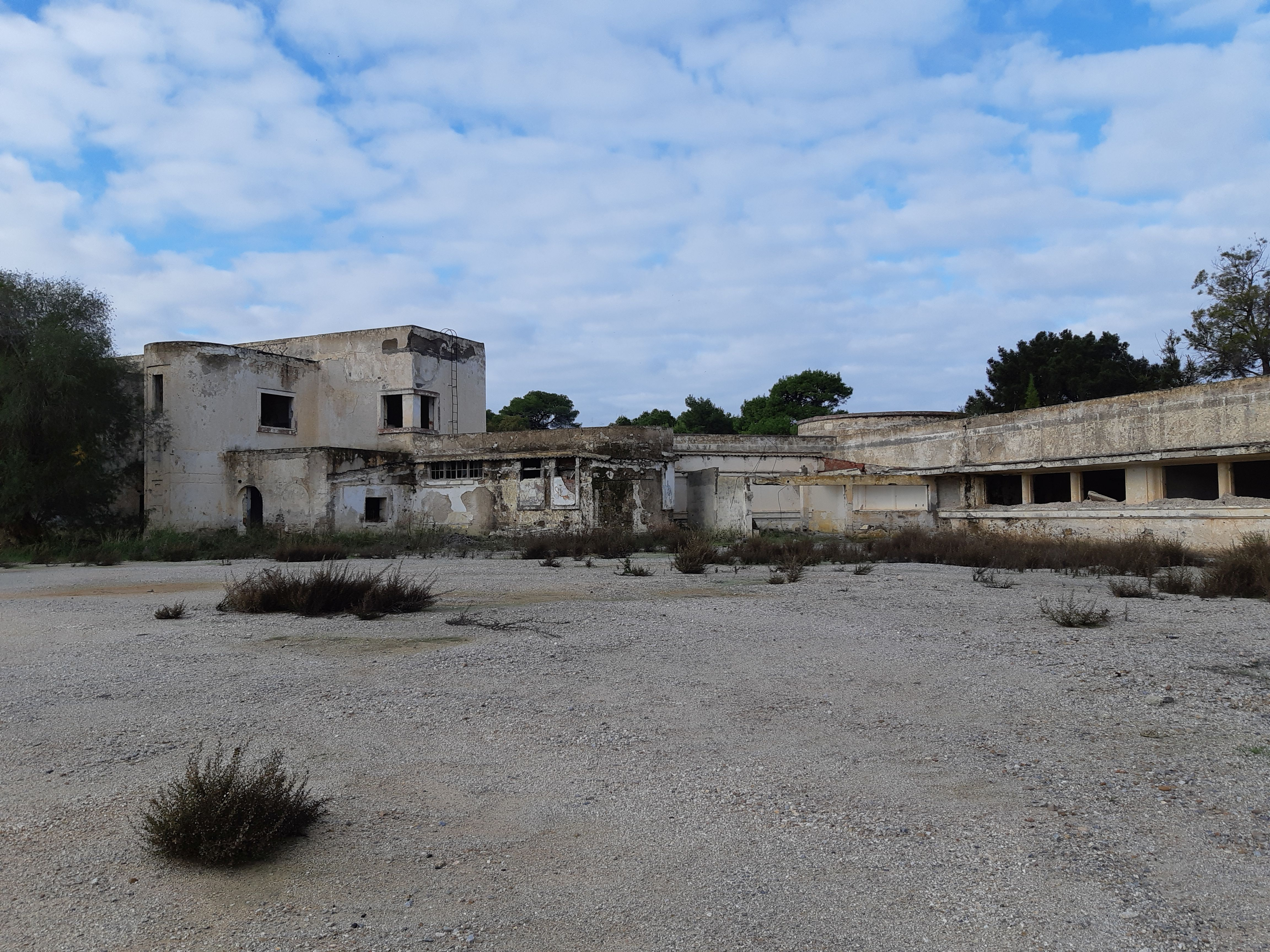 Historic administrative center of the Italian occupying power from 1936 to 1943 in Linopotis on the Greek island of Kos.